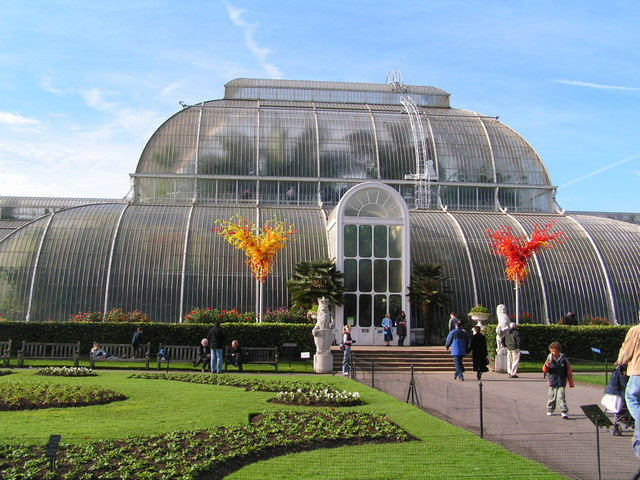 Glass sculptures in front of the Palm House, Kew Gardens